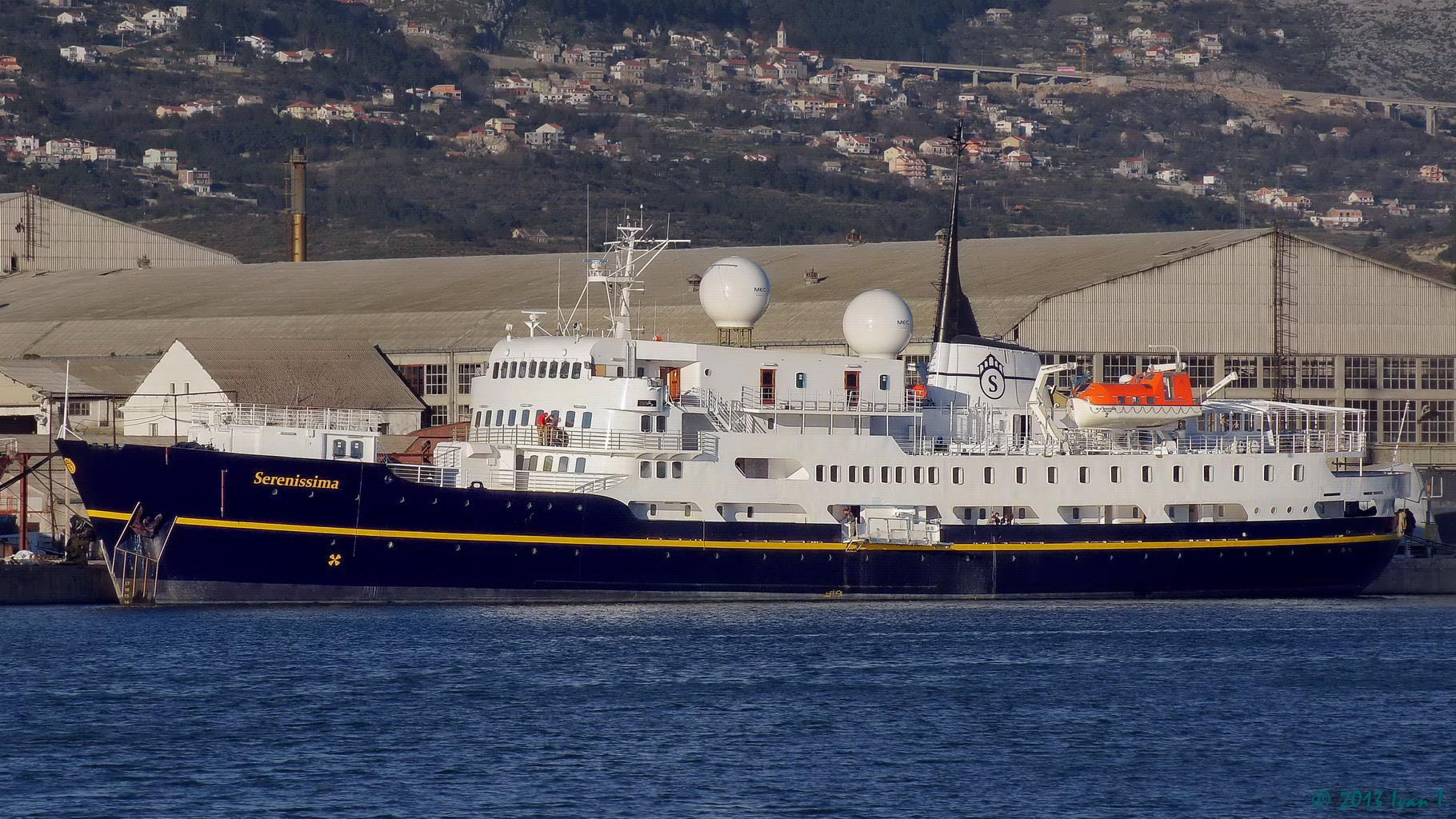 Serenissima at the completion of her refurbishment in Split, as seen on Mar 22nd 2013, CET 16:59:50, N 43°31'48", E 16°27'58", two weeks before her scheduled maiden voyage from Split to Venice.